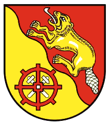 Coat of arms of Oberbieber in Neuwied